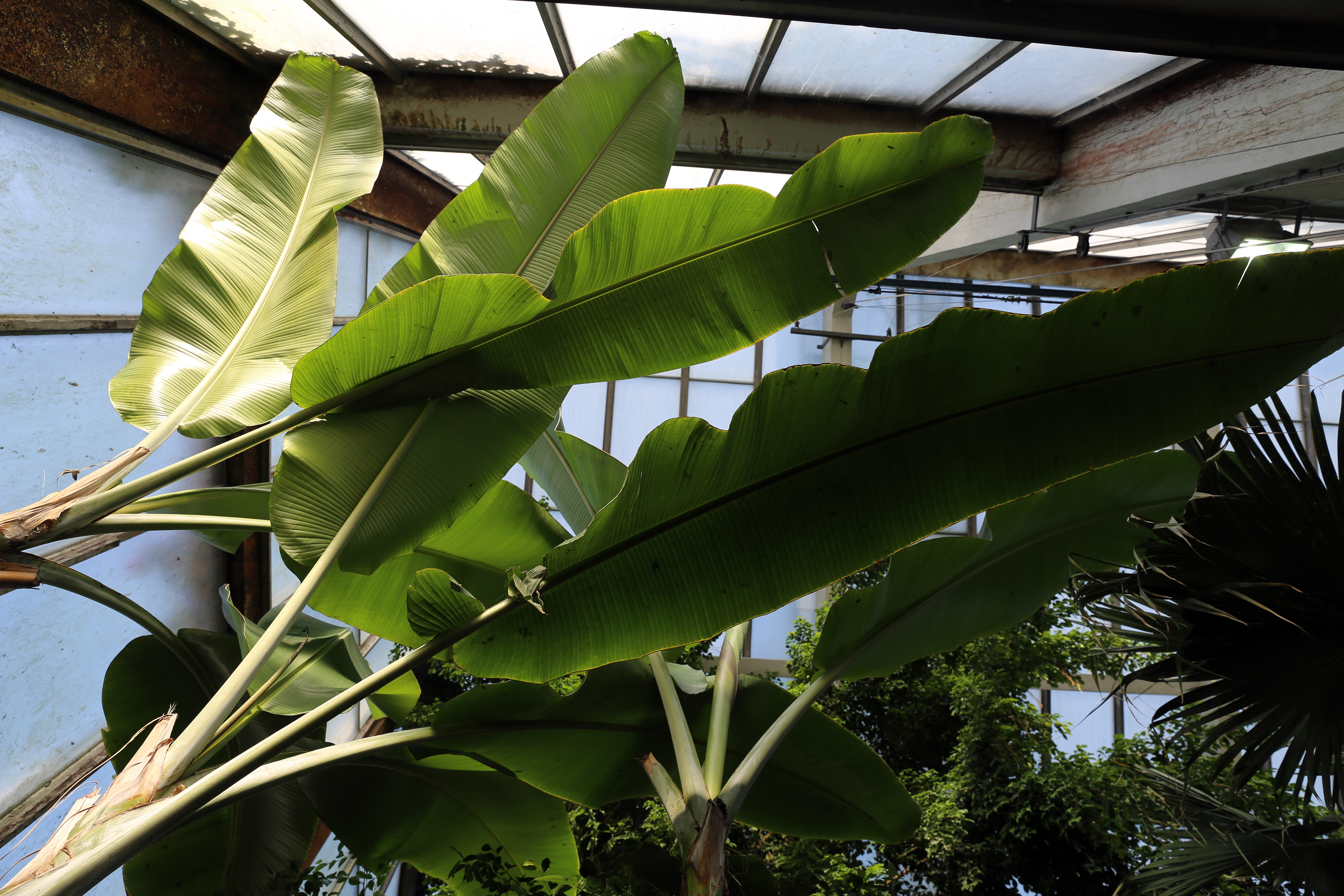 Musa × paradisiaca at Blumengärten Hirschstetten in Vienna, Austria.